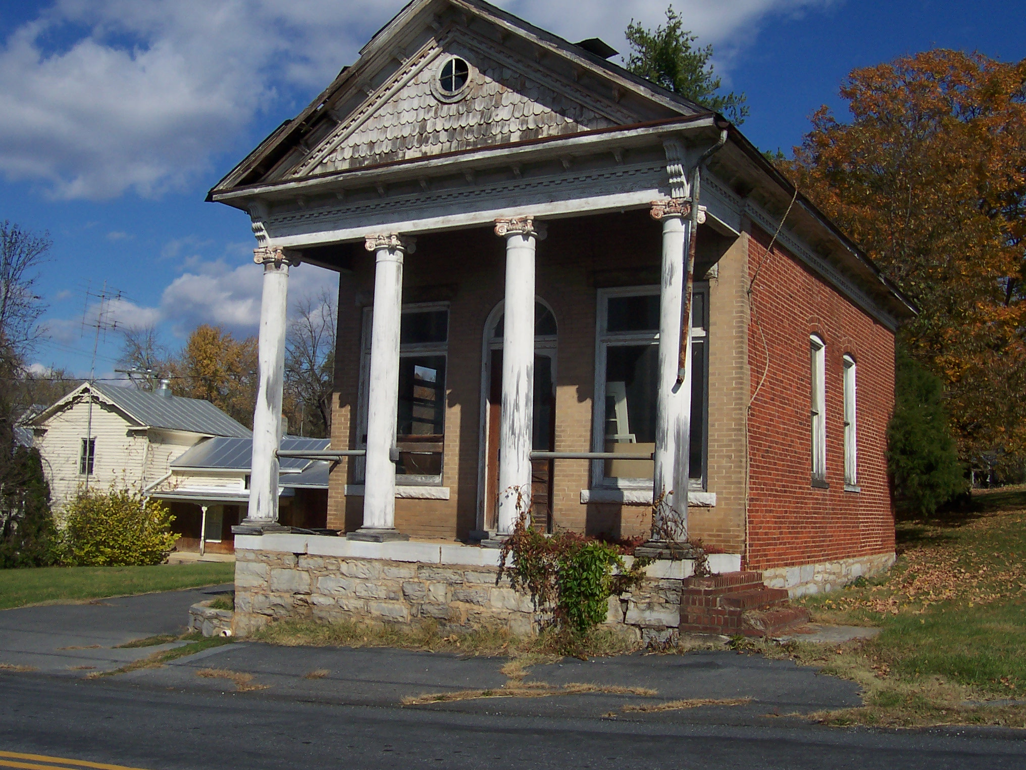 The old Mount Solon bank. Notice where it was rebricked. Once, a couple of robbers blew up the side of the bank to get to the safe. The building is now unused.